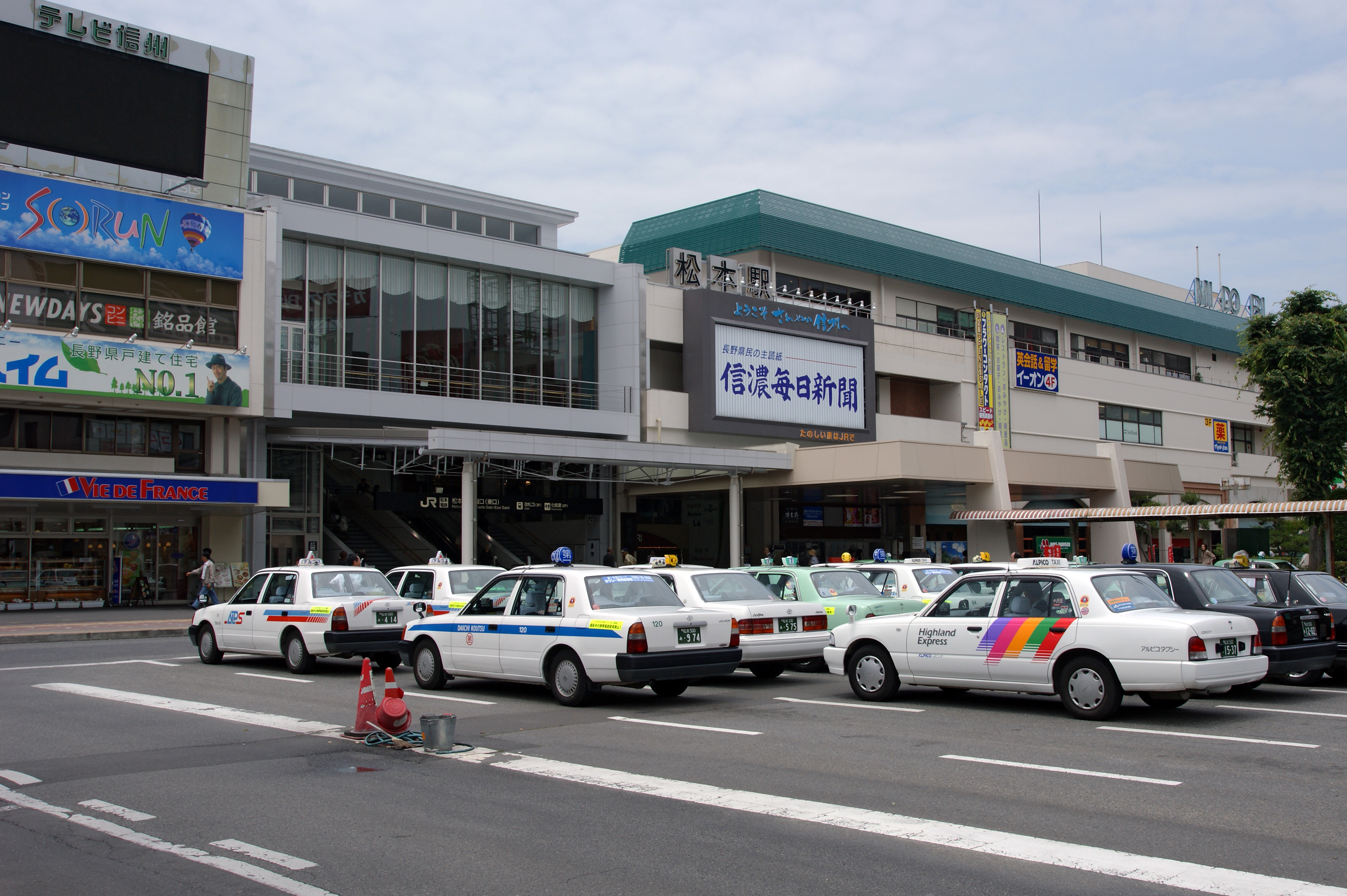 Matsumoto Station in Matsumoto, Nagano prefecture, Japan